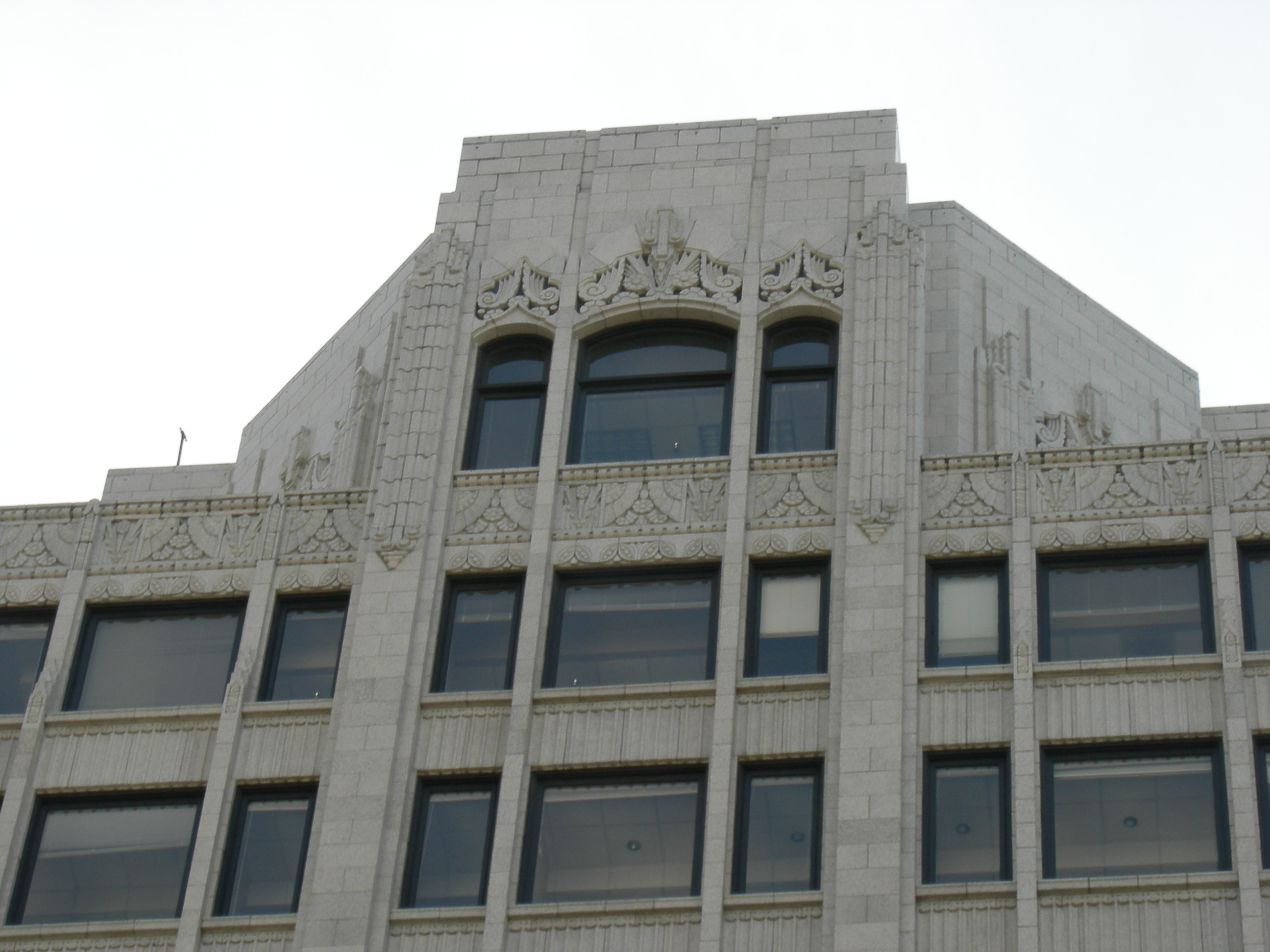 Olympic Tower, formerly known as United Shopping Tower and as Northwestern Mutual Insurance Building, 217 Pine Street, Seattle, Washington. Has city landmark status and is on the National Register of Historic Places, ID #80004004. One of the Henry Bittmann firm's many terracotta-covered buildings in downtown Seattle (this one built in 1929).